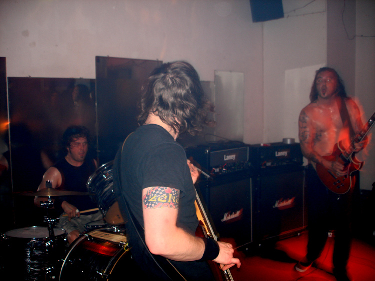 High On Fire @ Morlock Gallary Concert of High on Fire and Orang Sunshine at the Morlock Gallery in The Hague in 2008